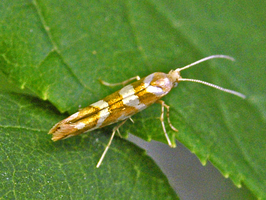 Argyresthia goedartella. Val Veny, Aosta, Italy